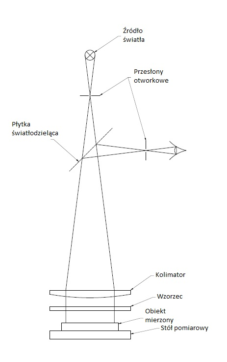 Scheme of Fizeau interferometer